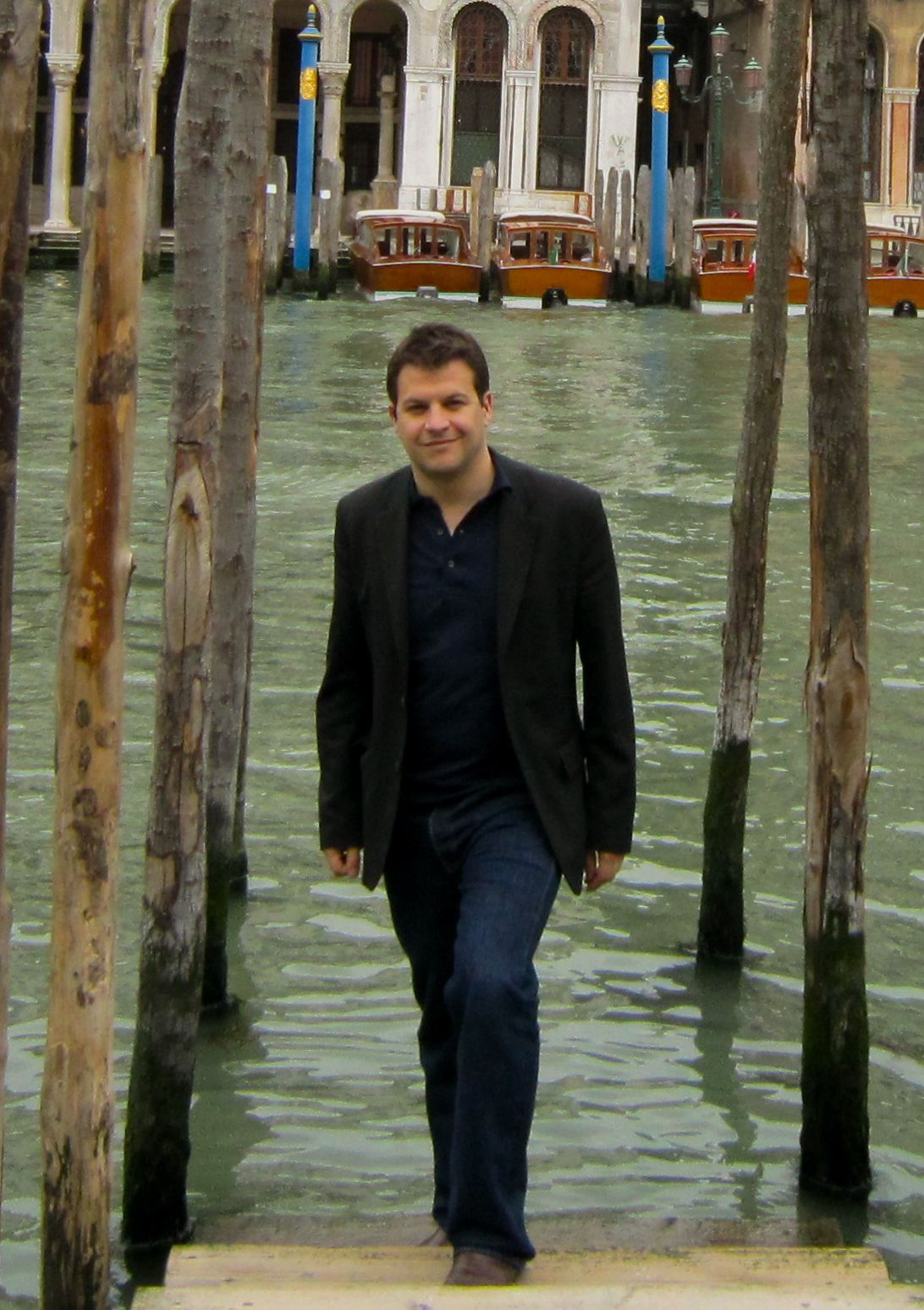 French writer Guillaume Musso in Venezia in may 2010